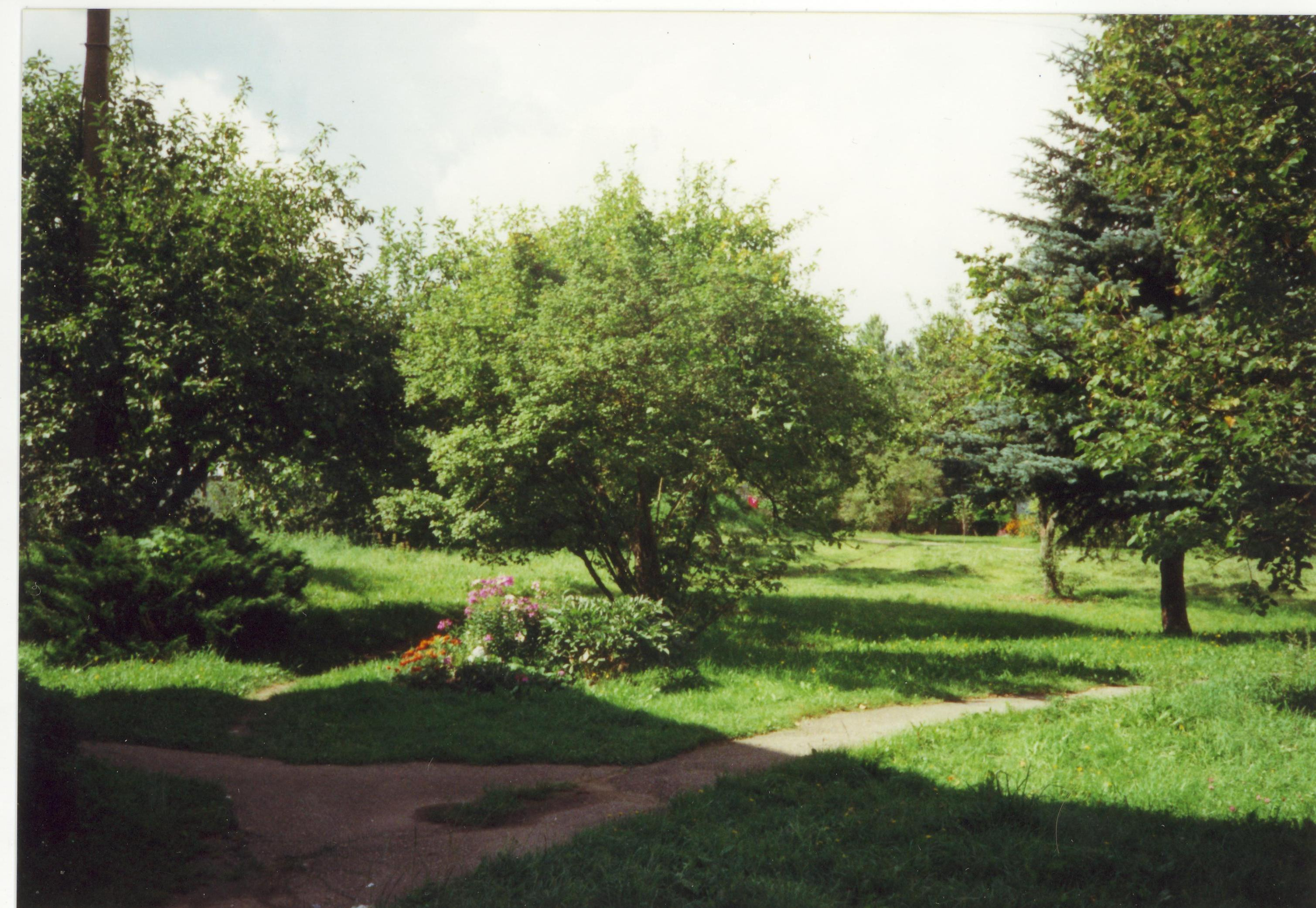 MUG Jonava, J. Bas. 68